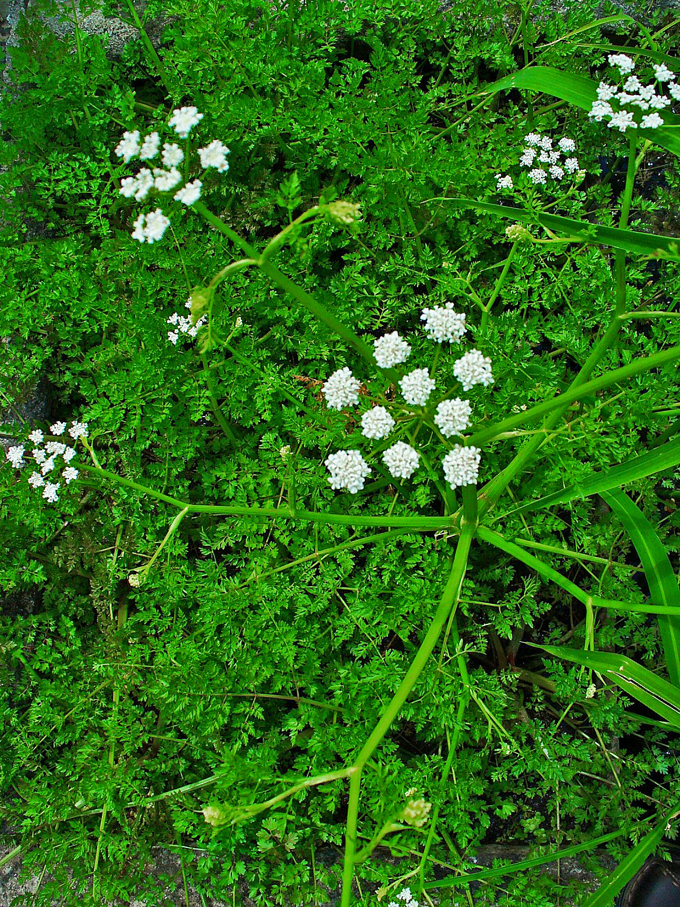 Oenanthe aquatica, Apiaceae, Fine Leaved Water Dropwort, habitus. Botanical Garden KIT, Karlsruhe, Germany.